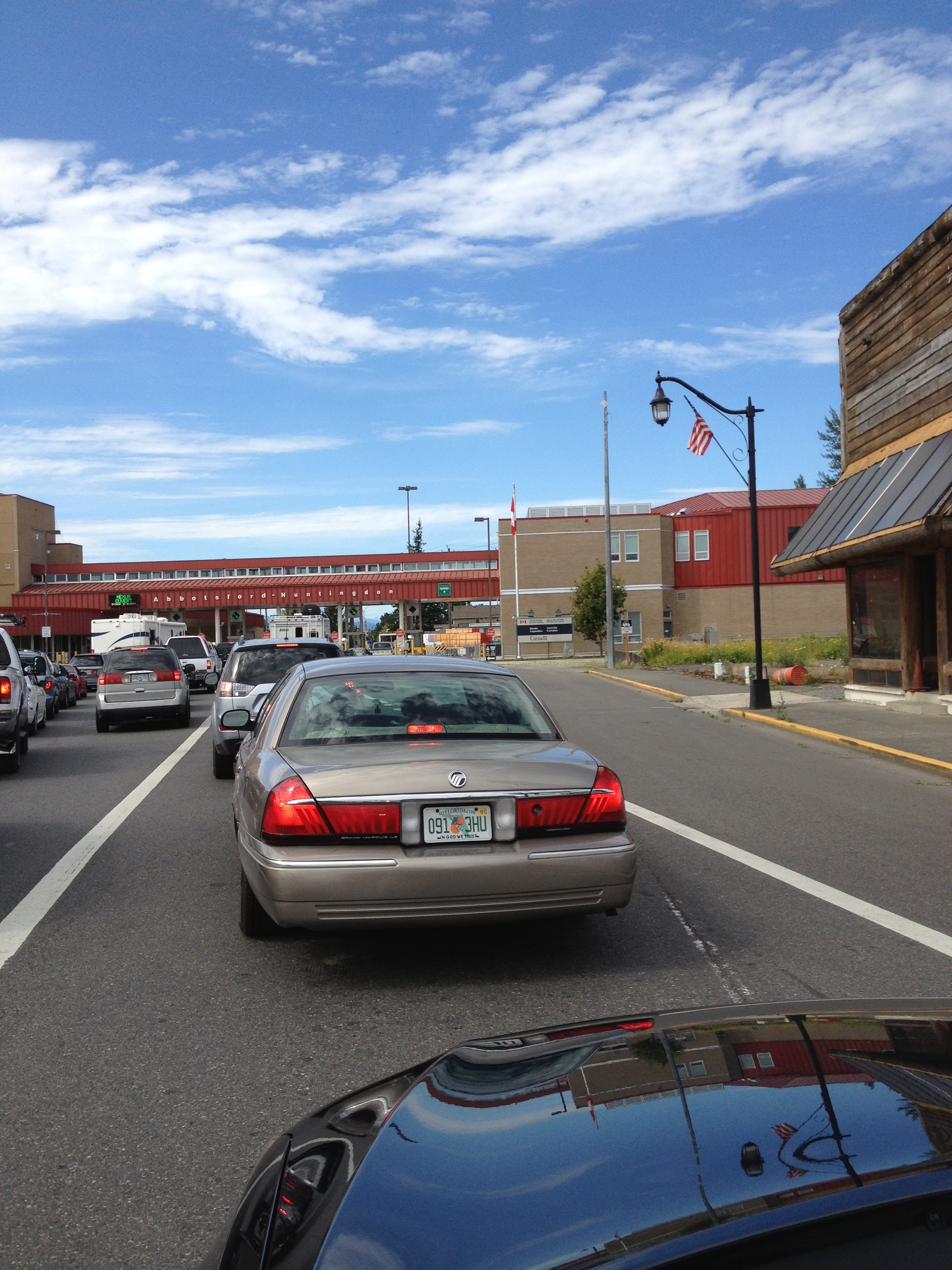 Border crossing at Sumas, Washington, looking north from the American side